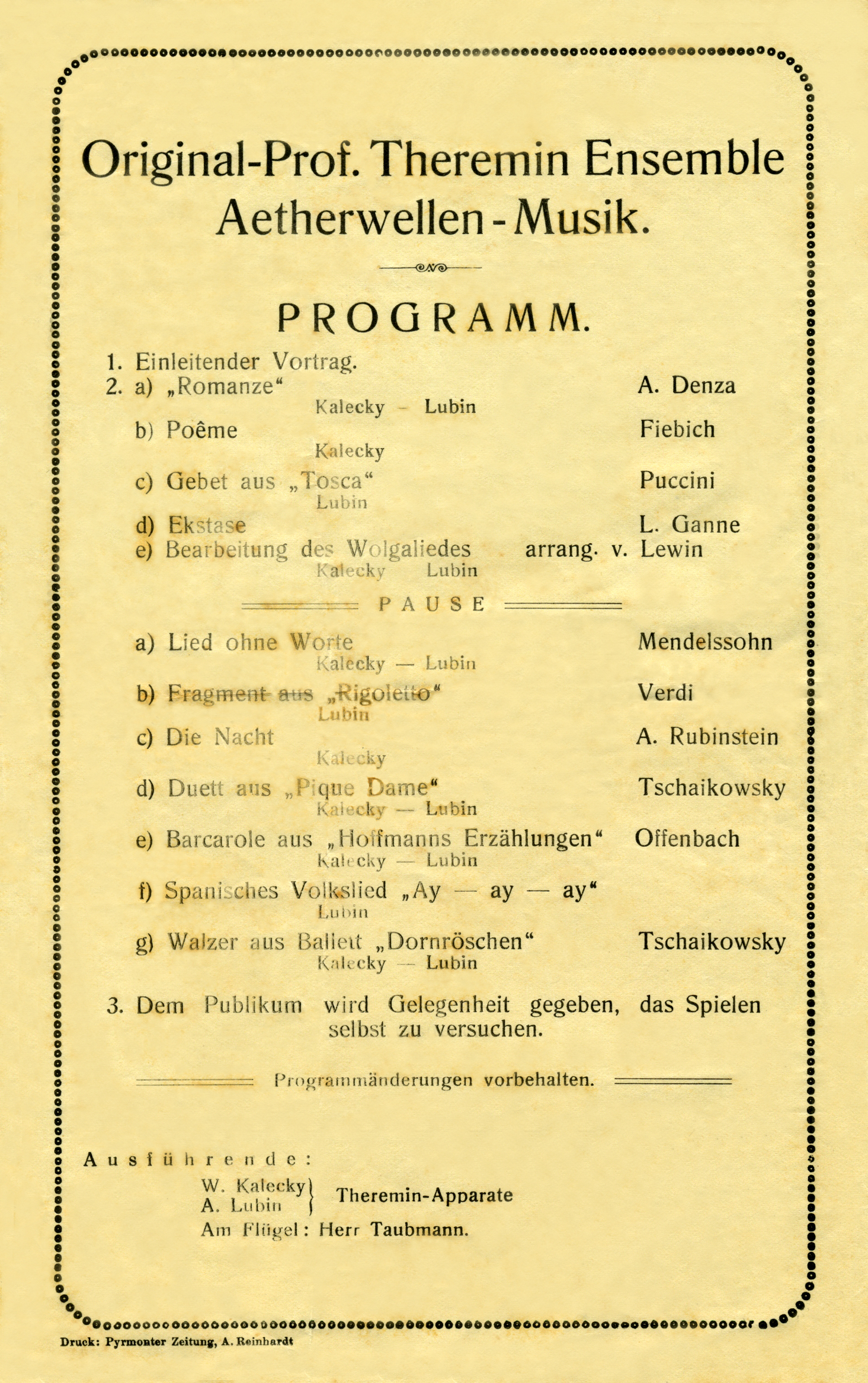 Playbill of the Original Prof. Theremin-Ensemble. Bad Pyrmont, ca. 1929